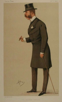 Caricature of General Sir Charles Ellice GCB (1823 - 1888). Caption read "the Adjutant General".